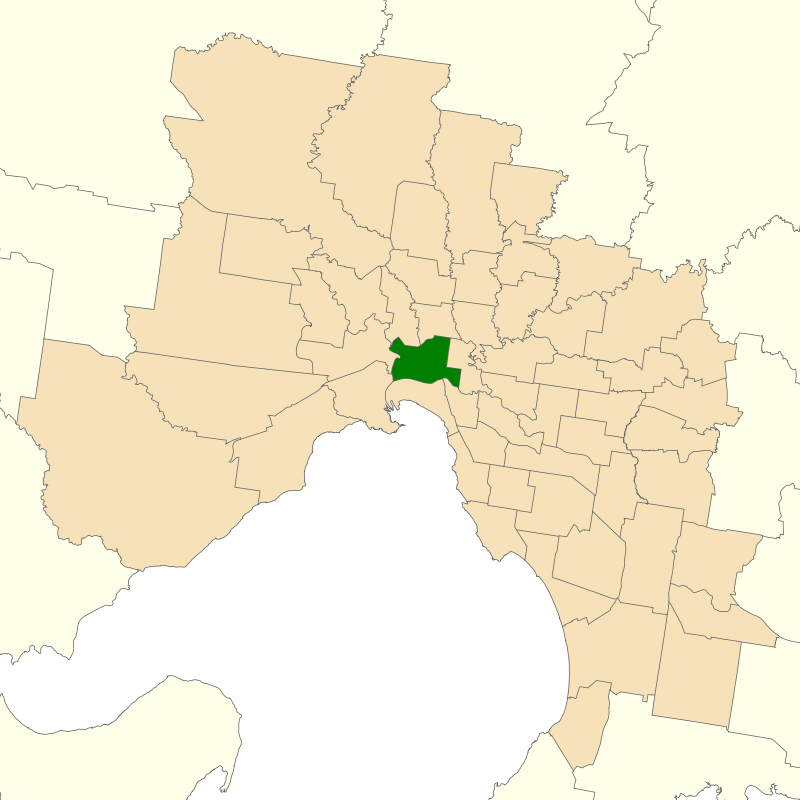 Location of the Victorian electoral district of Melbourne (dark green) in the Greater Melbourne area.